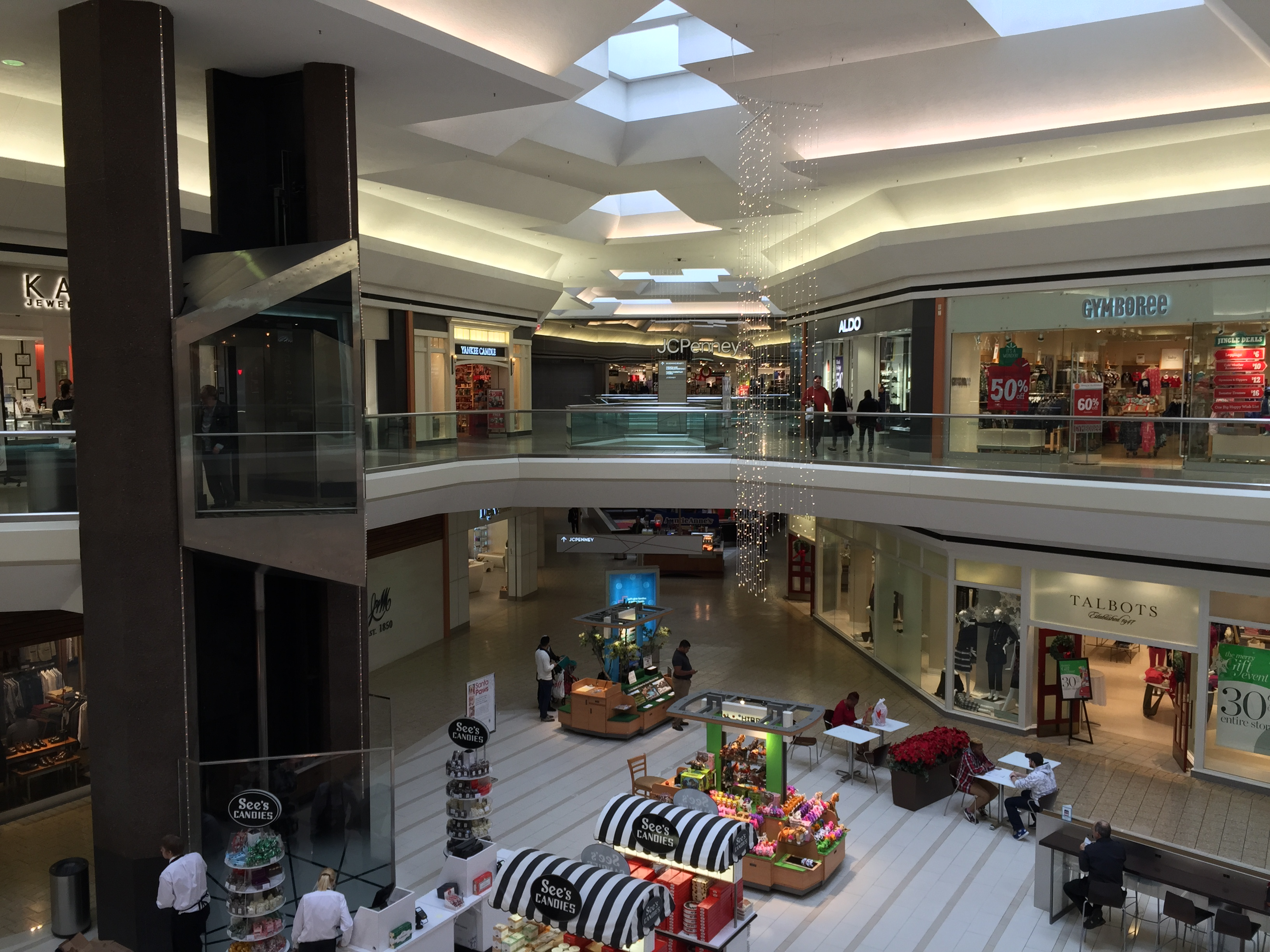 Interior of the Fair Oaks Mall in Fair Oaks, Fairfax County, Virginia